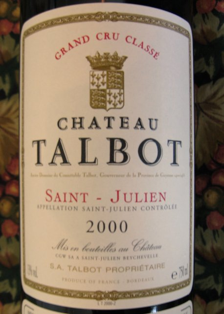 Label from a bottle of 2000 Chateau Talbot